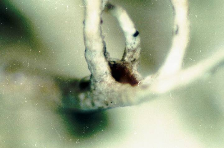 Cladonia arbuscula (Wallr.) Flot., 1839 (photograph of a herbarium specimen taken through a dissecting microscope (x40) showing an open axil) Growing on soil in open woods above the camping area at Green Ridge State Forest, Allegany County, Maryland, USA; collected and identified by Elmer G. Worthley (No. L-582, 17 Apr 1980); specimen is now in the Lichen Herbarium of the New York Botanical Garden.